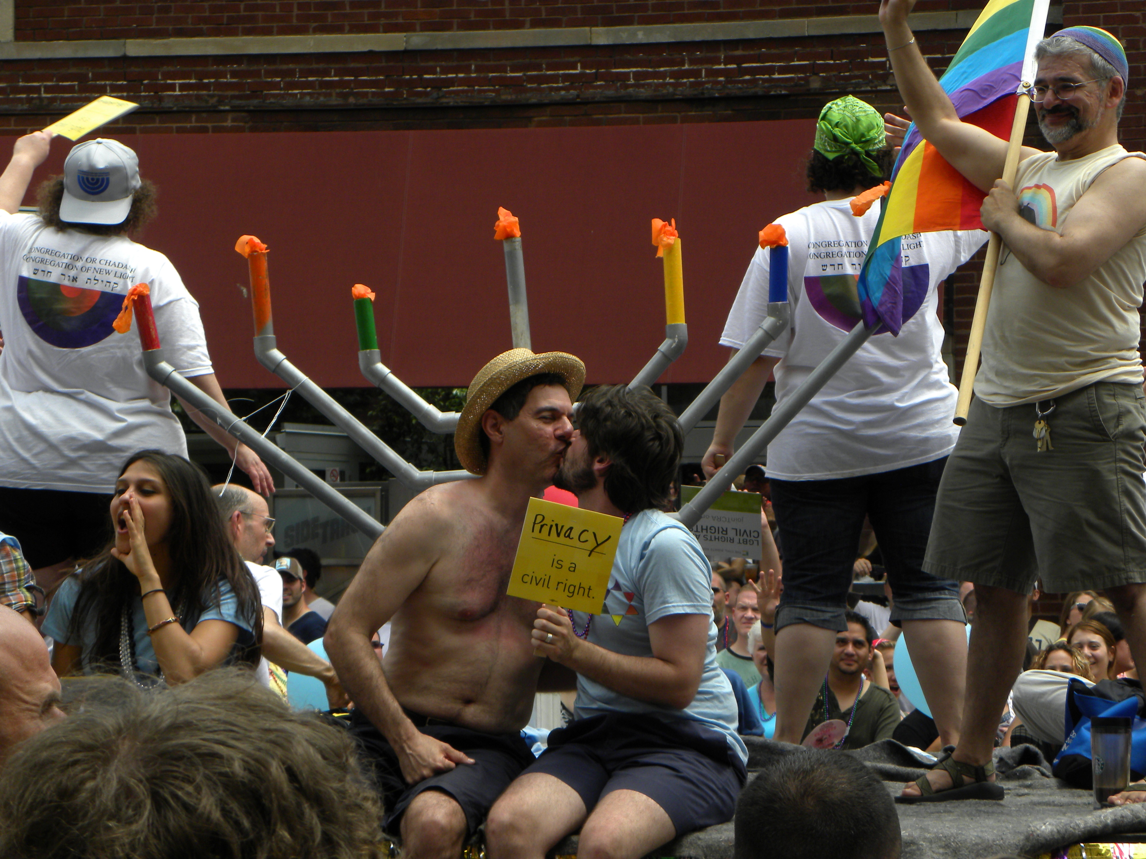 Privacy is a civil right. I love this.